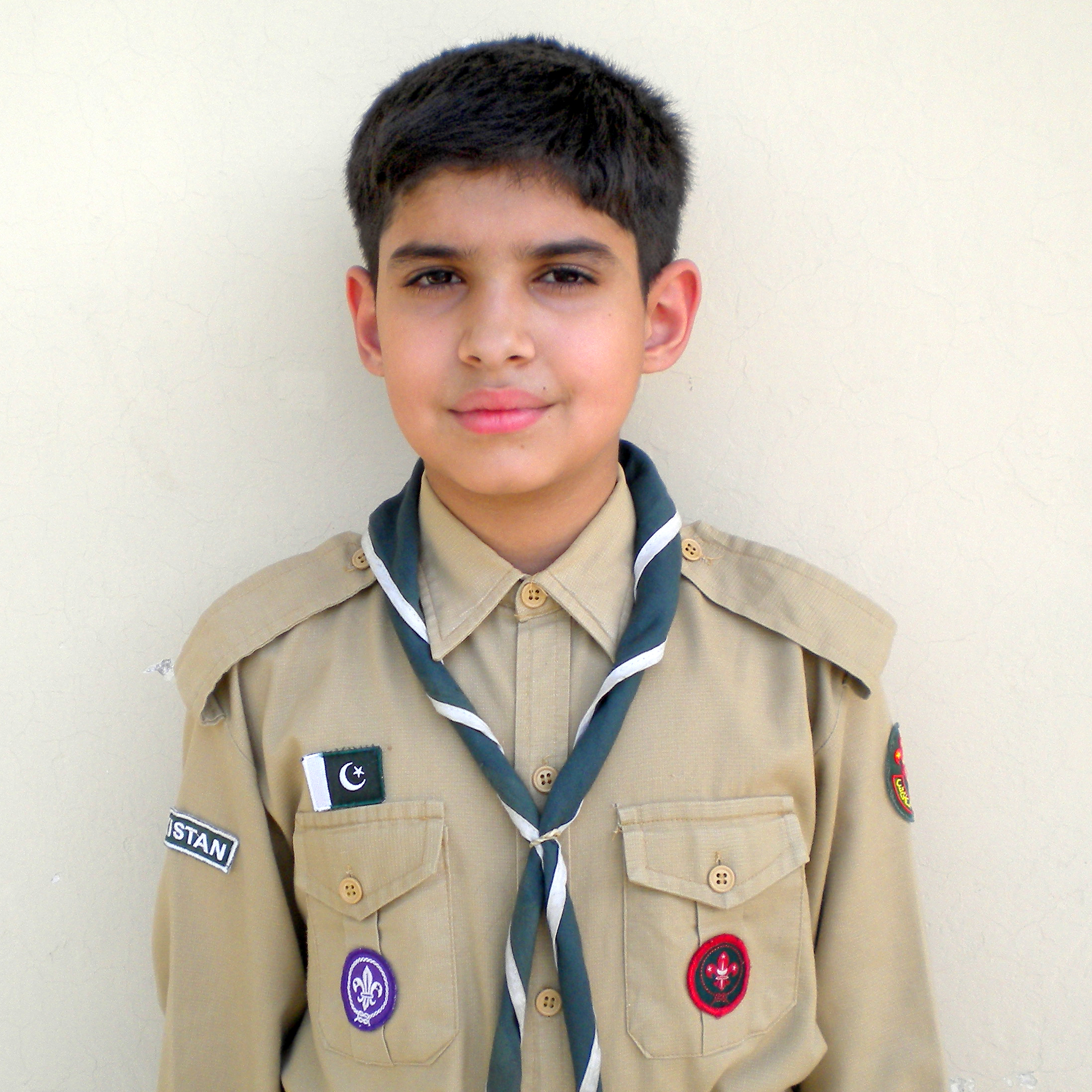 A Pakistani Scout